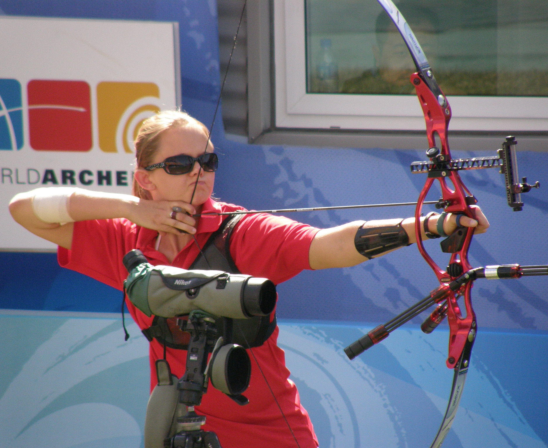 The United States at FIFA Women’s World Cup and Pan Am / Parapan Am Games This summer Canada is host to two major international sporting events: the FIFA Women’s World Cup and the Pan Am / Parapan Am Games. The United States has hosted the FIFA Women’s World Cup twice, and 2015 marks our seventh appearance at this premier tournament. We have competed at every Pan Am Games and have hosted twice, at Chicago 1959 and Indianapolis 1987. Participation in sports teaches leadership, teamwork, and communication skills that help young people succeed in all areas of their lives. We are proud to support all the athletes and thank them for being such inspiring role models. The U.S. Embassy is pleased to showcase American participation at FIFA, and many of the sports of the Pan American/Parapan Am Games.